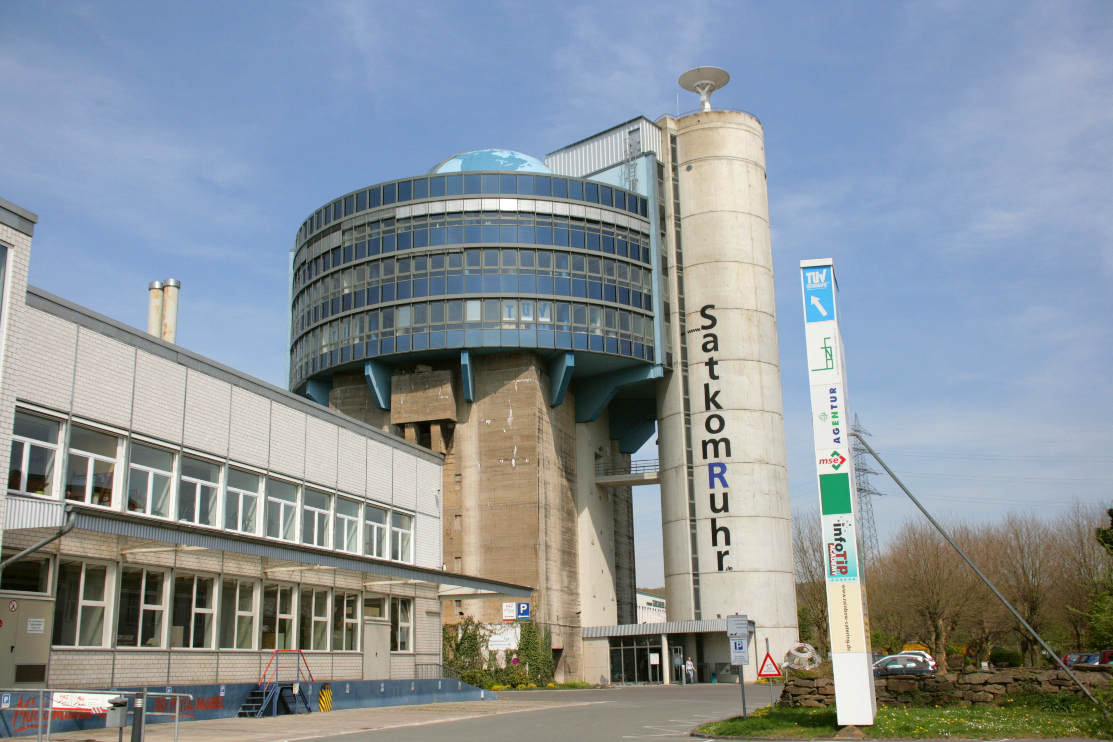 SatkomRuhr-Tower, Am Walzwerk in Hattingen